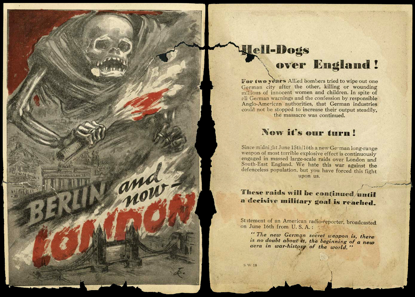 Nazi V-Waffen rocket propaganda leaflet delivered to London during bombings. End of June 1944.